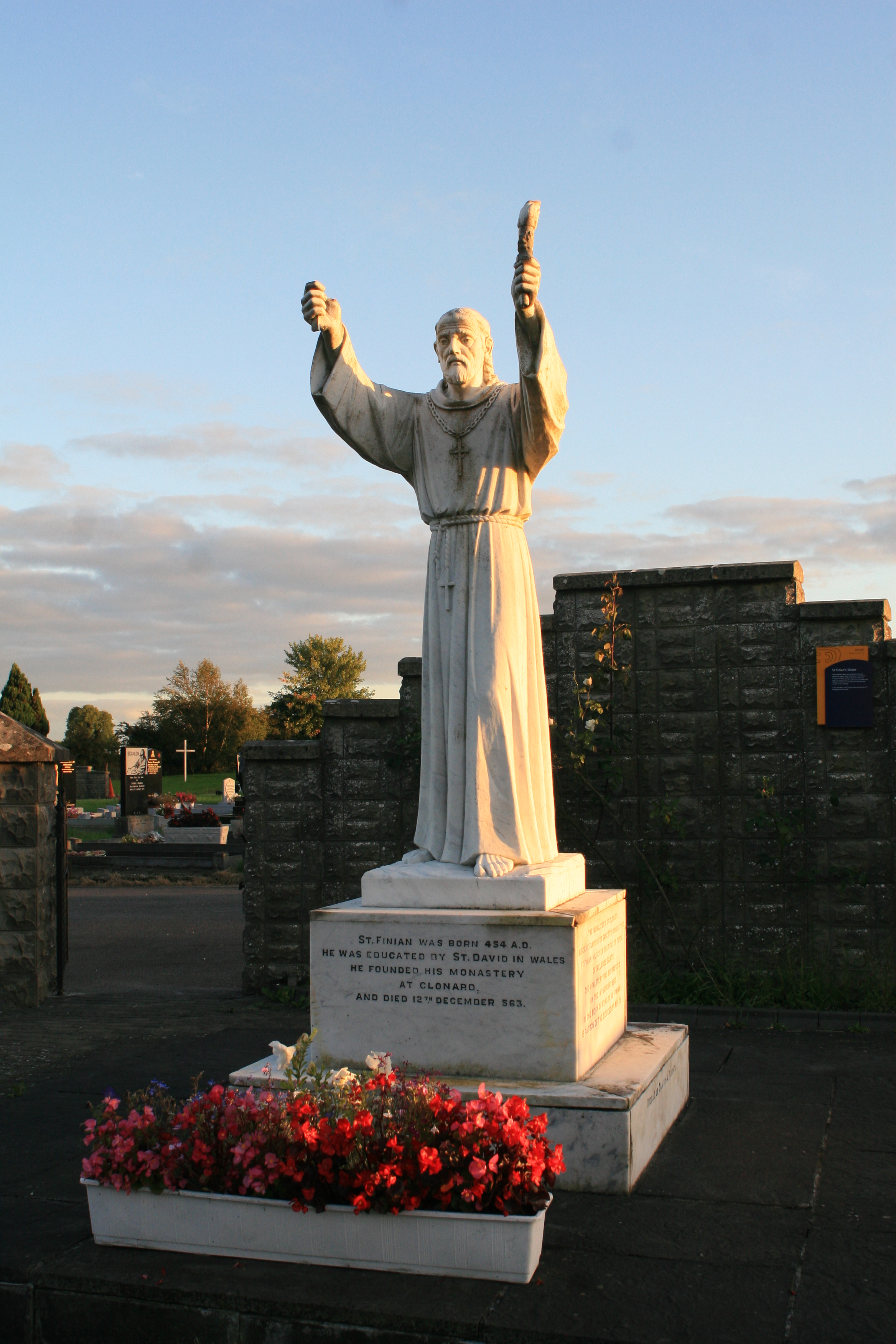 Clonard, County Meath, Ireland Statue of St. Finian, created by the Italian workshop Studi Nicoli, founded by the sculptor Carlo Nicoli. The inscription at the front reads: St. Finian was born 454 A.D. He was educated by St. David in Wales. He founded his monastery at Clonard, and died 12th December 563. The inscription is continued on the right side: The monastery of Clonard became famous for sanctity and learning. St. Finian was given the title of tutor of Irelands saints. The monastery was suppressed on the 14th January 1553 in the reign of Edward VI. Finian is patron of the diocese of Meath. On the rear side: This statue was erected for the faithful of this parish Aug. 1960 by V.Rev. Edward Crinion P.P. The left side gives a prayer: Oh God who didst give blessed Finian to be a minister of eternal salvation to thy people. Grant we beseech thee that we who had him on earth as a teacher of life may be worthy to have him for advocate in heaven, throhch Jesus Christ our Lord Amen.